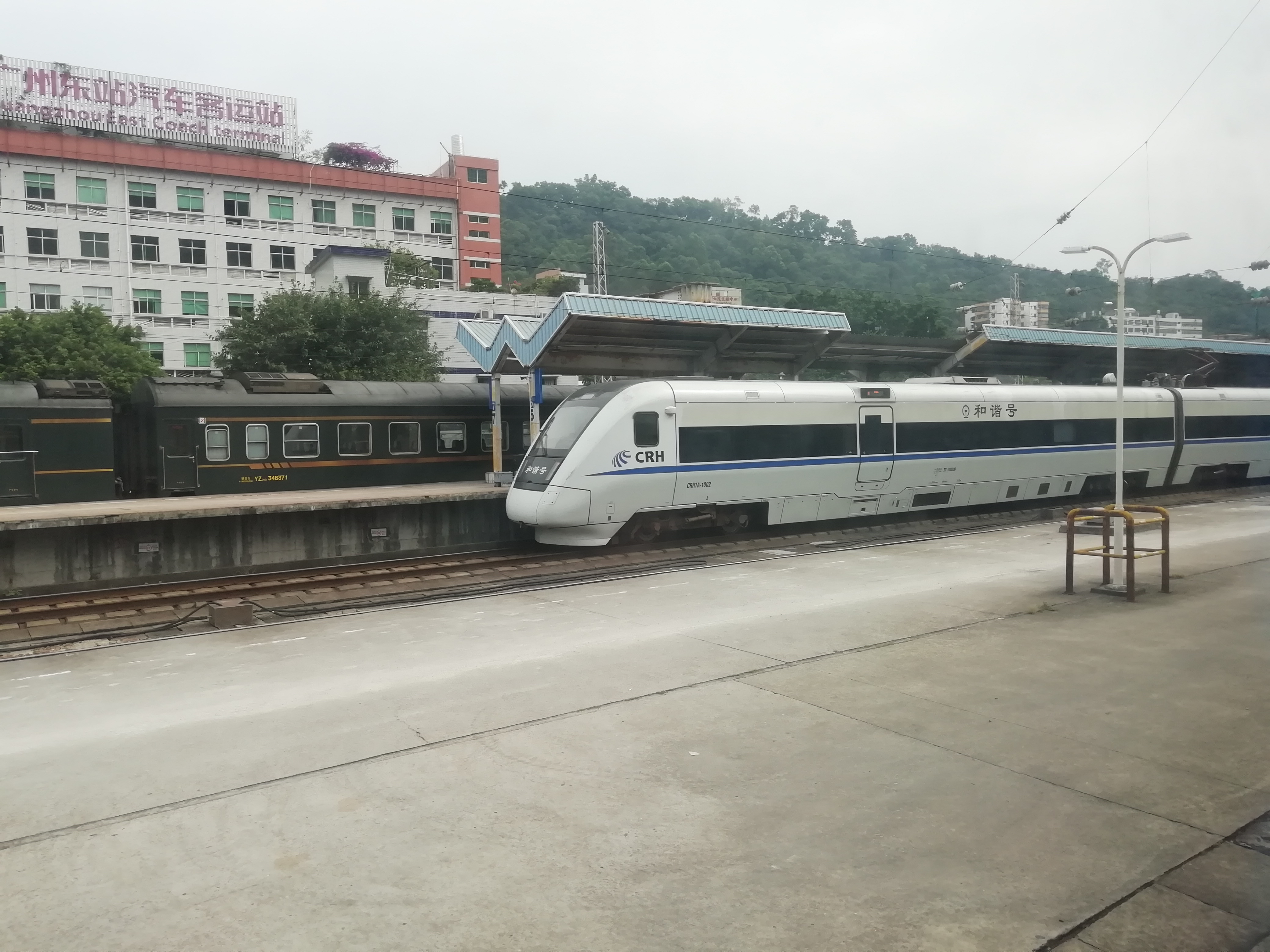 K309 (to Hefei) and C7065 (to Shenzhen) were ready to depart on Platform 7 of Guangzhou East Railway Station. The Z99 train will stop at this station for about one hour. 中文（中国大陆）: 开往合肥的K309次和深圳的C7065次在广州东站7站台待发。沪港列车（Z99）将在该站停车一小时。